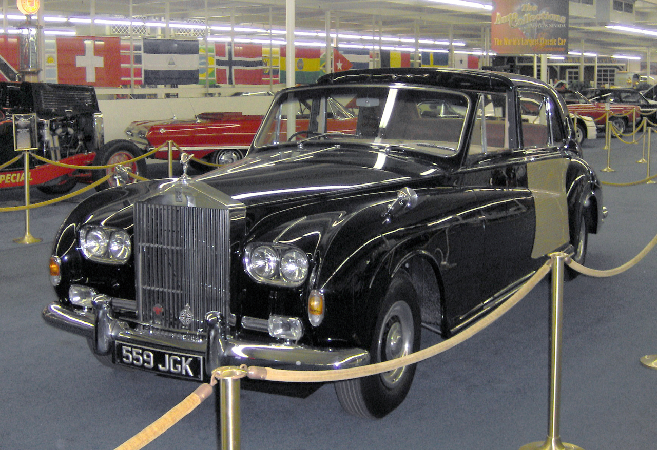 1960 Rolls-Royce Phantom V James Young Sedanca Deville